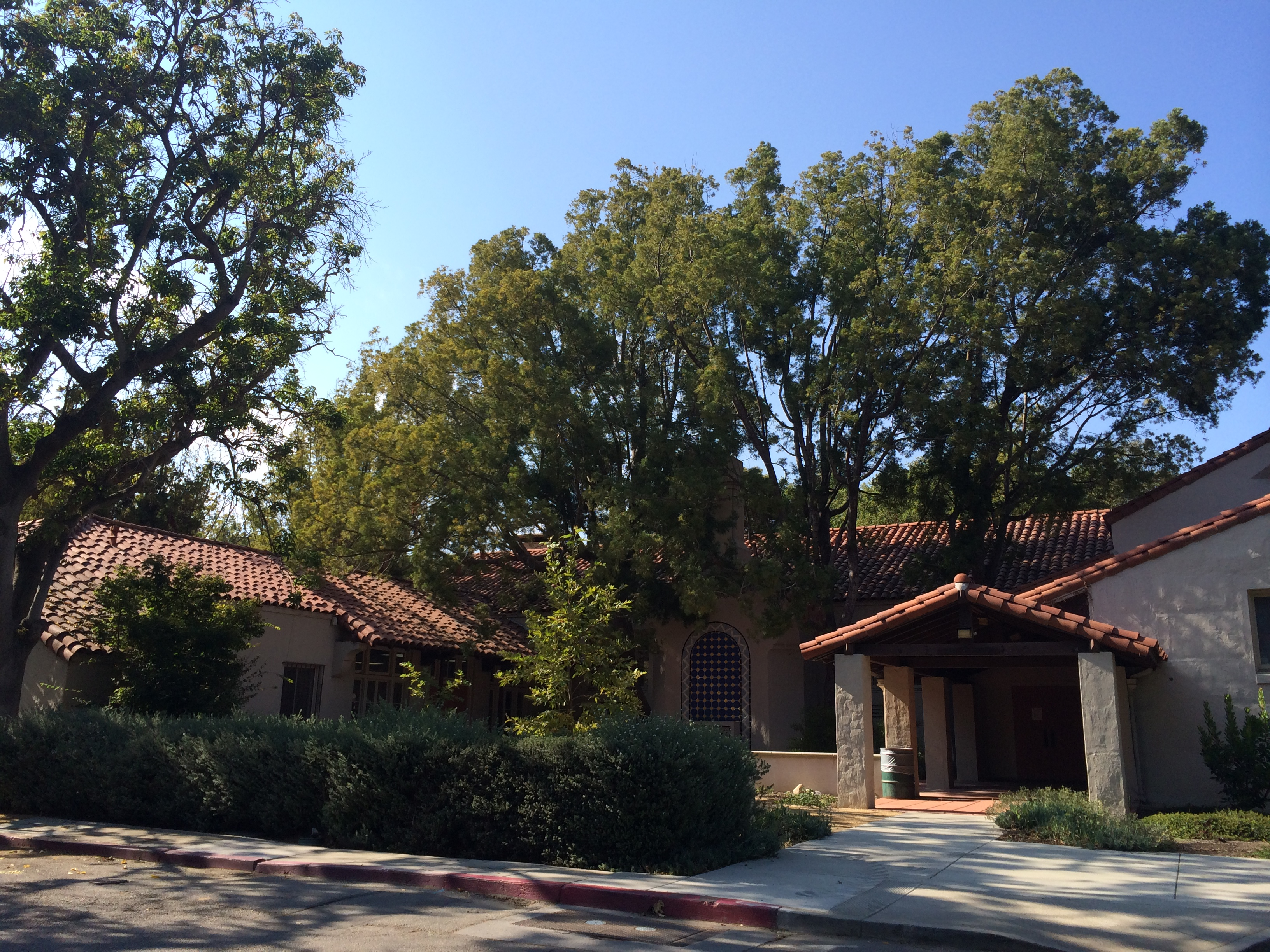 Uplifters Clubhouse in Rustic Canyon, Pacific Palisades neighborhood, Los Angeles, California Spanish Colonial Revial Style Architect William J. Dodd Built 1923, declared 1999 Los Angeles Historic-Cultural Landmark No. 663 City of Los Angeles Cultural Heritage Commission, Cultural Heritage Department Landmarked by the Pacific Palisades Historical Society and the Rustic Canyon Park Advisory Board Building is now used as Rustic Canyon Recreation Center and Rustic Canyon Cooperative Nursery School at Rustic Canyon Park.